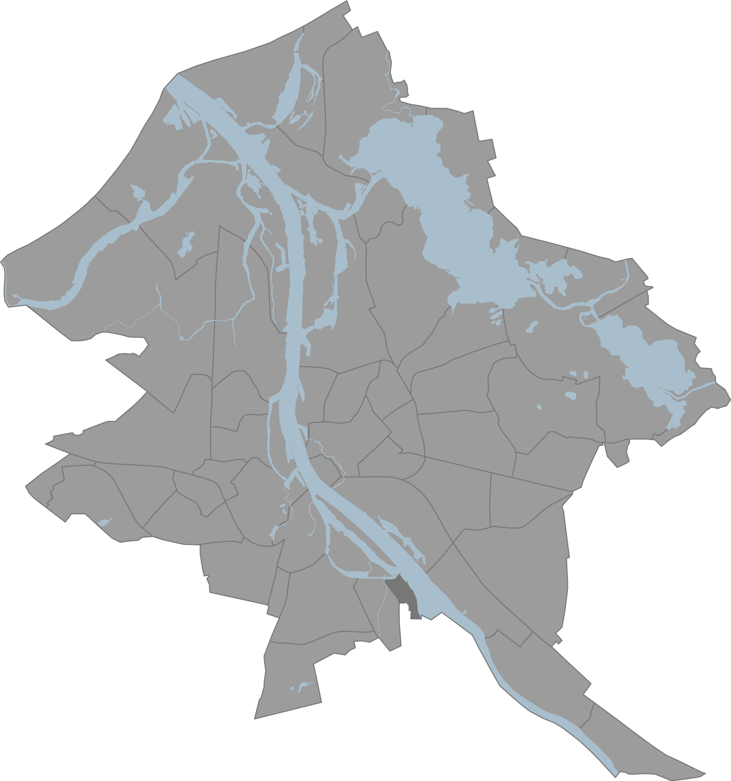 A map of Riga, Latvia with the eponymous commune highlighted